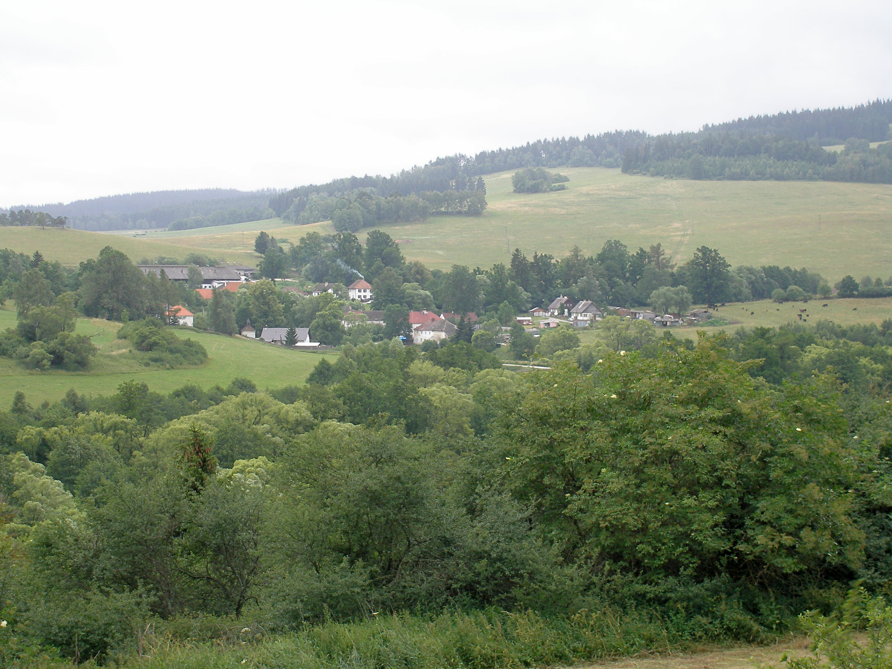 Šebanov (Germ. Schöbersdorf) - the general view